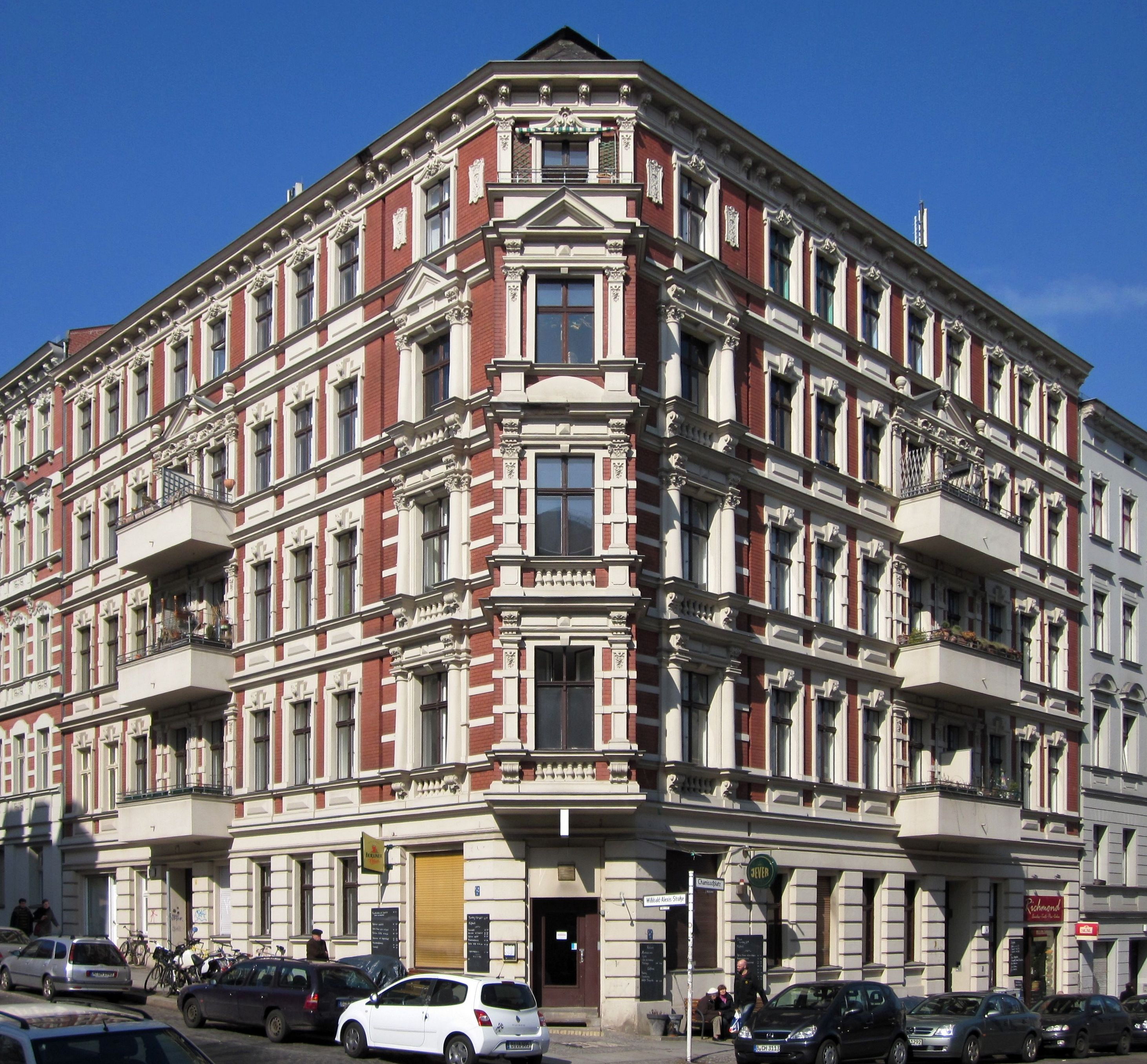 Residential building Chamissoplatz No. 4, corner of Willibald-Alexis-Straße No. 17 (on the left), in Berlin-Kreuzberg. The house was built in 1890 byCarl Jung. It is part of the protected historic buildings area Chamissoplatz.